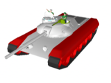 Tank gear highlight